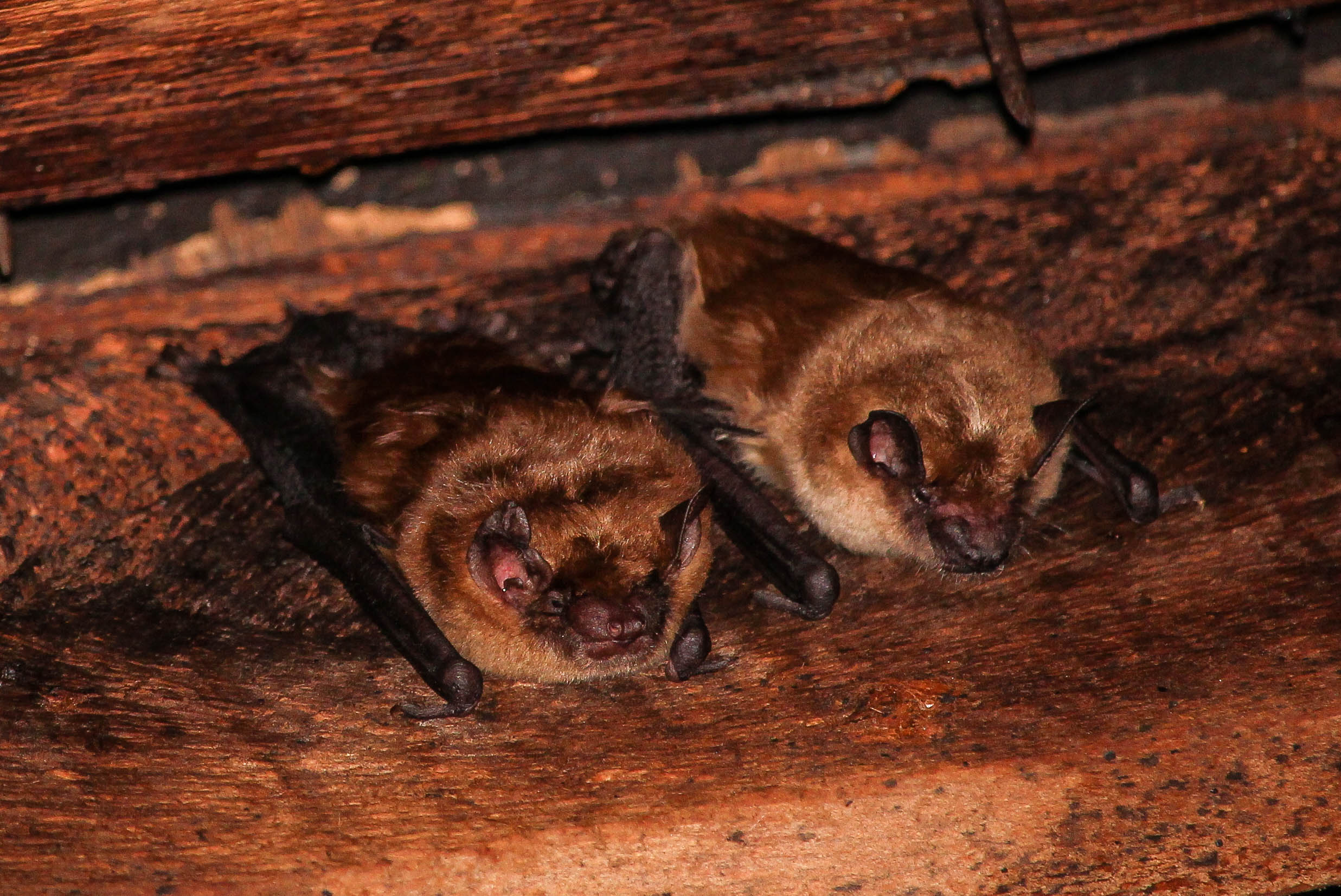 Big brown bats (Eptesicus fuscus) roost in a Minnesota barn.